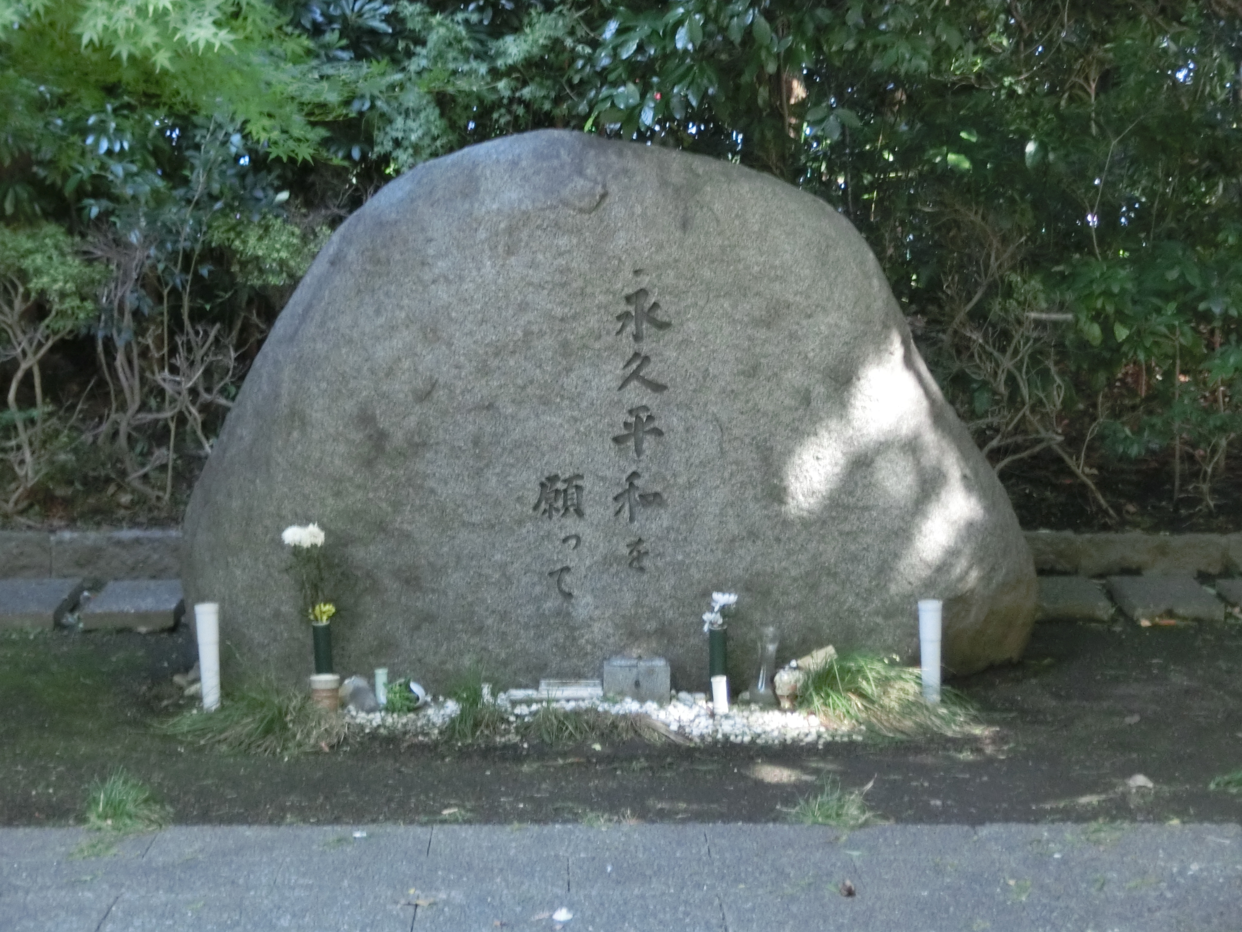 Higashi-Ikebukuro Chuo Park cenotaph